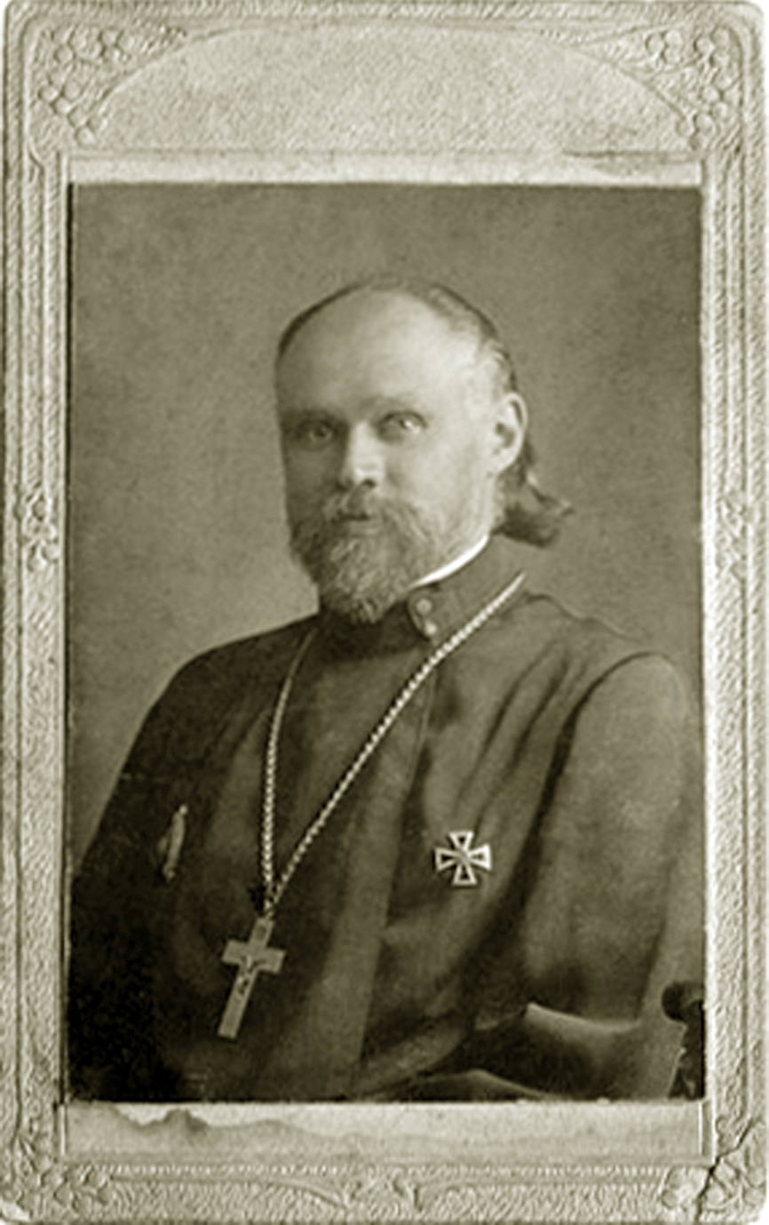 Mikhail Kapitonovich Dobrovolsky, high priest of the church Saint Miron, regiment´s church of the His Majesty Lifeguard Jaeger Regiment to Saint Petersburg, Russia.